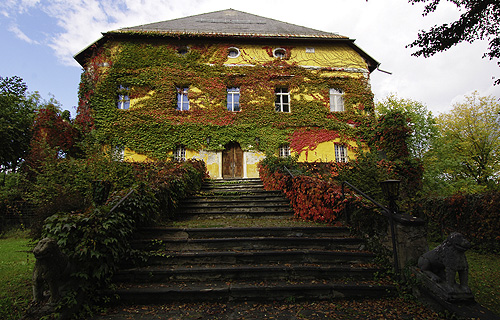 Schloss Maria Loretto am Wörthersee, Ansicht der Vorderseite - Maria Loretto castle at the shore of Lake Wörth 21:14, 7. Jan 2006 Eixi 500 x 320 (157737 Byte) (* Bildbeschreibung: Schloss Maria-Loretto am Wörthersee, Ansicht der Vorderseite. * Quelle: upload by ~~~~ with permission of the photographer * Fotograf: Helge Bauer, )